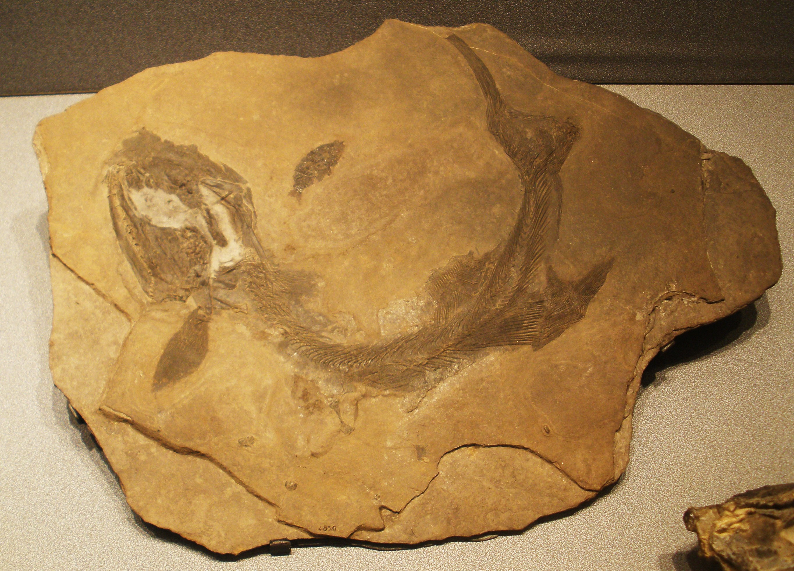 Took the photo at Museo di Storia Naturale di Bergamo